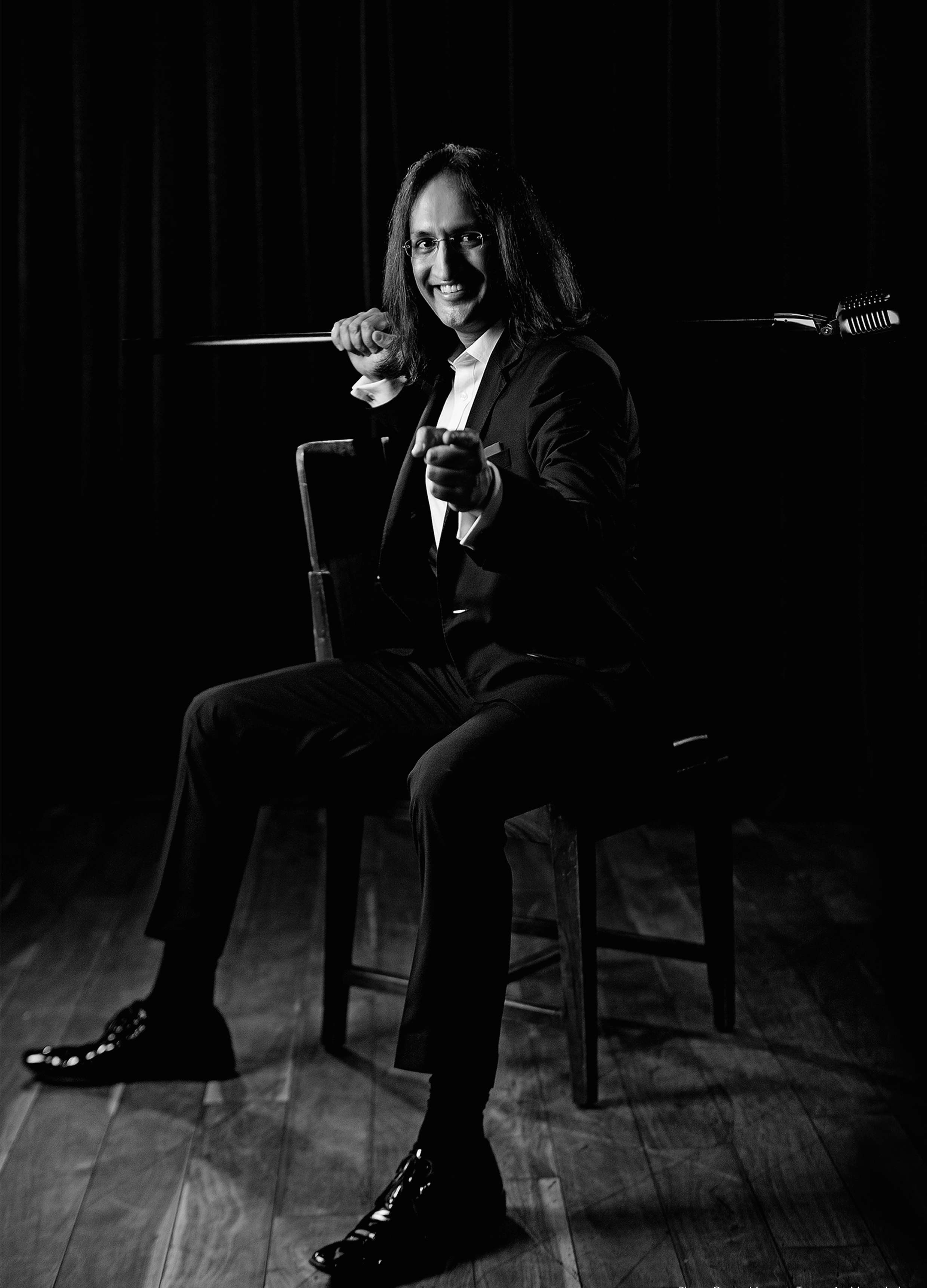 Photograph of Indian comedian Papa CJ